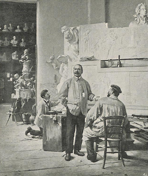 Hans Temple: Viktor Tilgner in seinem Atelier